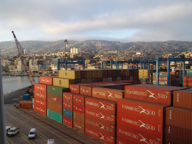 Port of Valparaiso, a busy container shipping port.